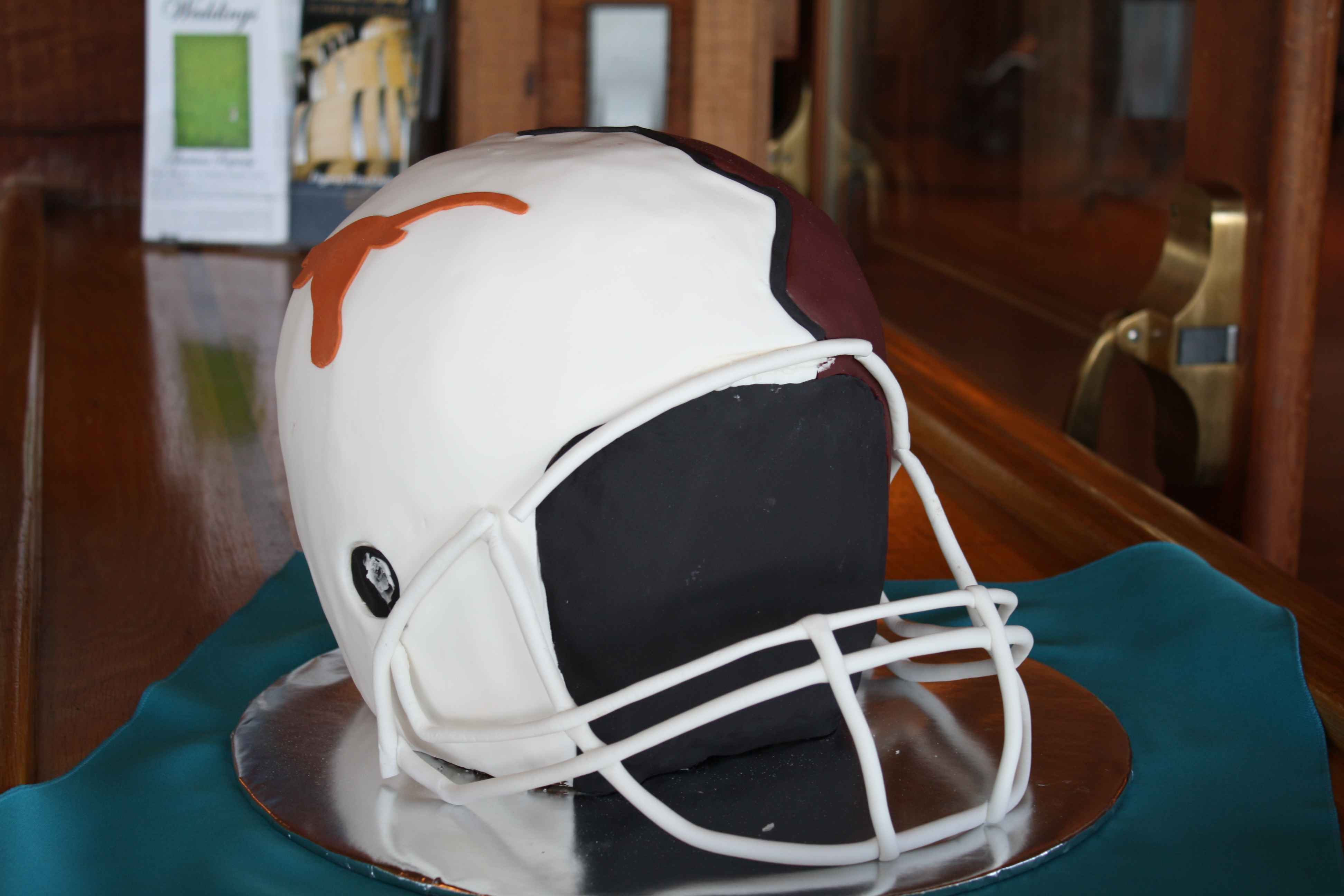 A groom's cake is a wedding tradition typically associated with the American South.